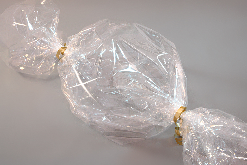 Sweets_packaging_made_of_PLA-Blend_Bio-Flex